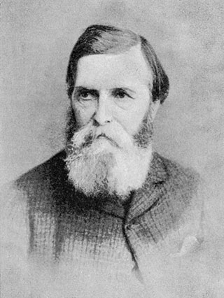 An etching of Robert Michael Ballantyne made in the 1890s.